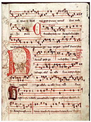 A page of Kancionál Jistebnický (approx. 1420)